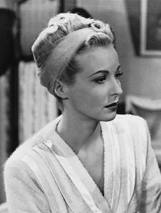 Hillary Brooke in The Woman in Green (1945).